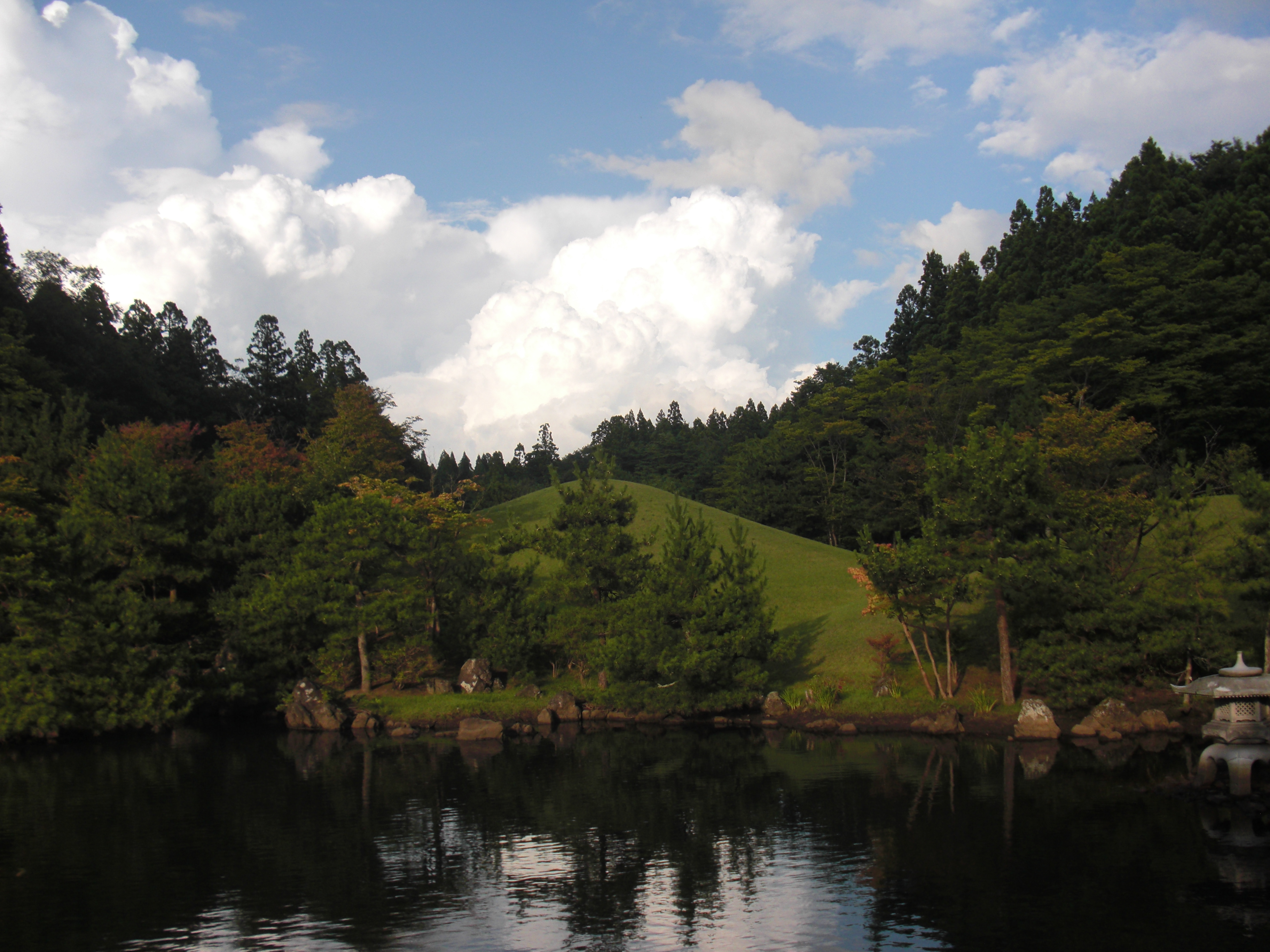 Shimonoike pond of Suishinen in Akita prefectural Koizumigata park, Akita, Japan.